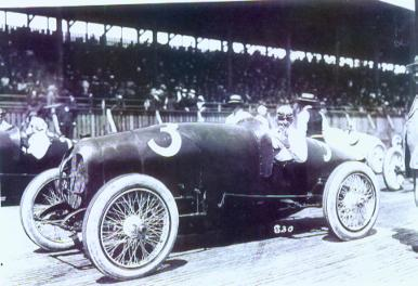 1921 Tacoma, Ralph Mulford, Monroe Fontenac